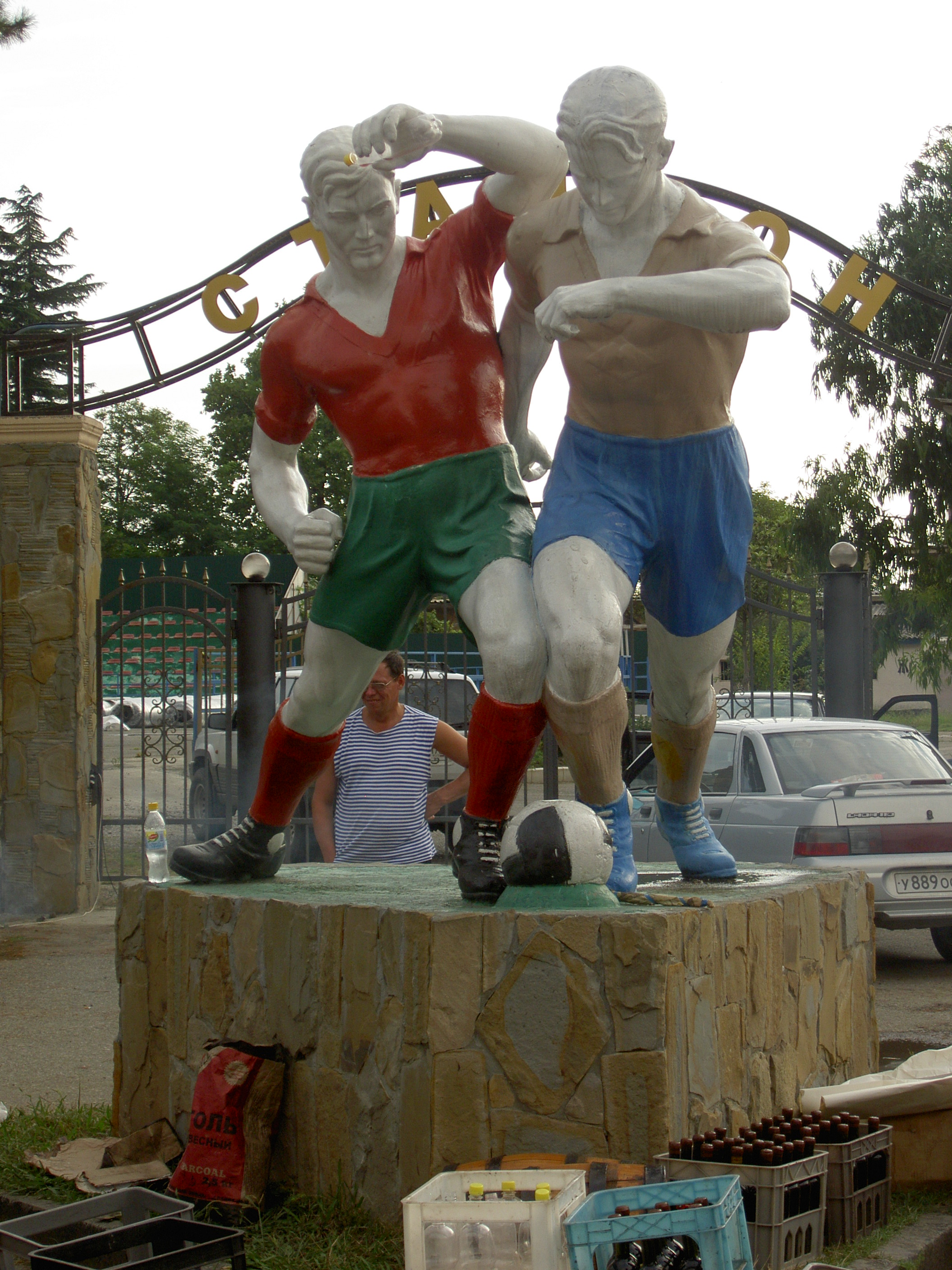 Near entrance to Daur Ahvlediani stadium in Gagra